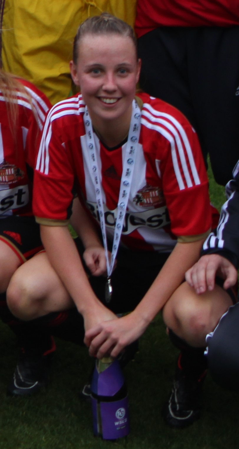 Sunderland Ladies celebrate promotion the WSL1.